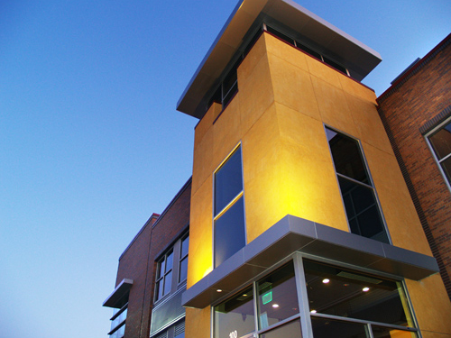 Spruce Street Place Mixed-use Office/Retail Development exterior